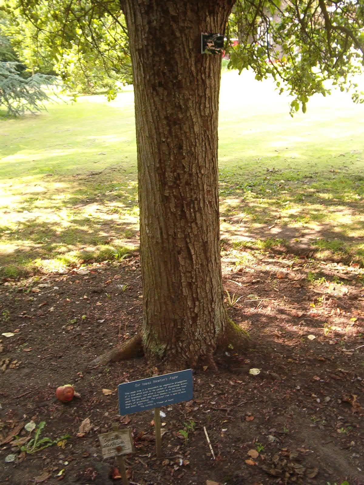 A descendant of the tree from which an apple reputedly fell and inspired Isaac Newton's theory of gravitation. Found in the Botanic Gardens in Cambridge, England.